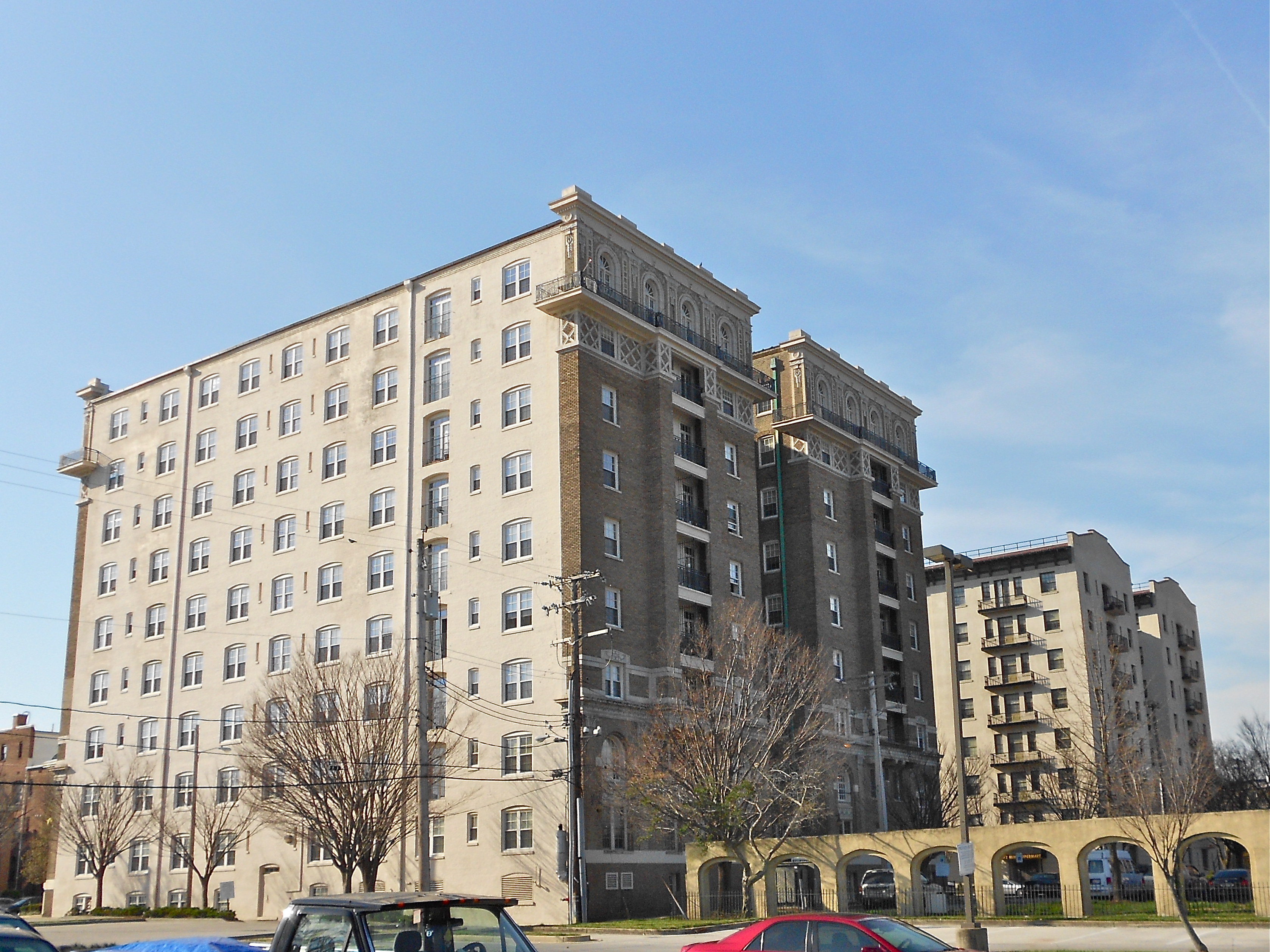 Eutaw-Madison Apartment House Historic District on the NRHP since May 12, 1983. At 2502 and 2525 Eutaw Pl., and 2601 Madison Ave. in central Baltimore, Maryland